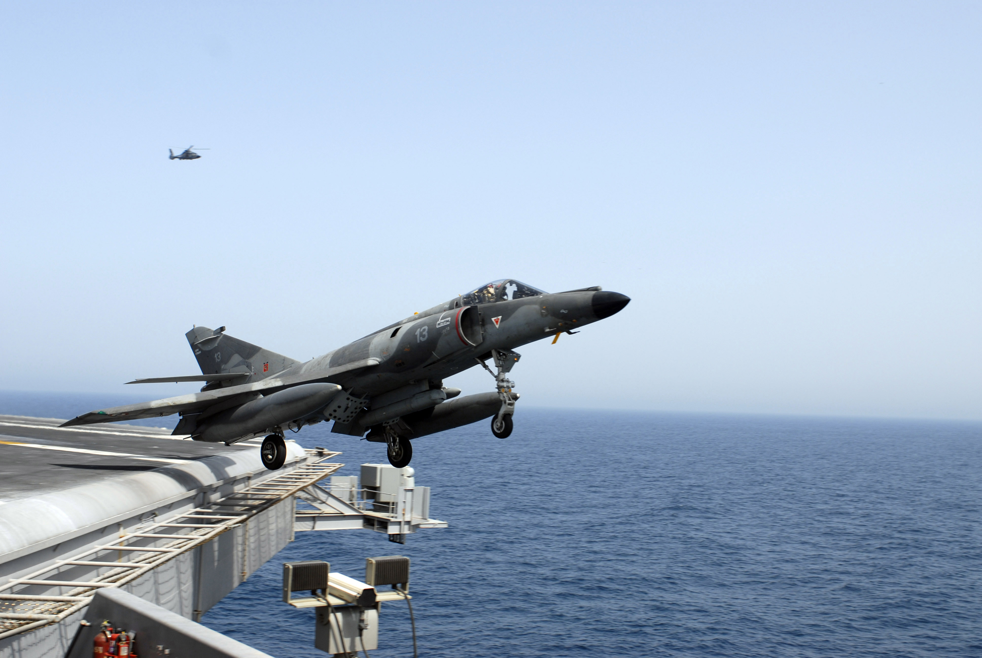 A French Super Etendard aircraft from the nuclear-powered aircraft carrier French Navy Ship Charles de Gaulle (R 91) performs a touch-and-go landing April 12, 2007, on the flight deck of the Nimitz-class aircraft carrier USS John C. Stennis (CVN 74). Ste nnis, as part of the John C. Stennis Carrier Strike Group, and Charles de Gaulle, the flagship of Commander, Task Force 473, are operating in the Northern Arabian Sea. (U.S. Navy photo by Mass Communication Specialist 1st Class Denny Cantrell) (Released) (Released to Public)